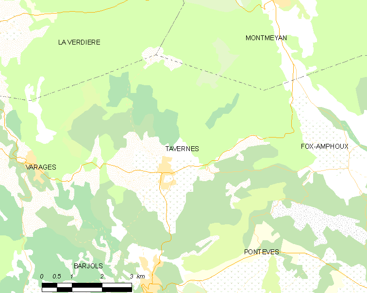 Map of French municipality Tavernes